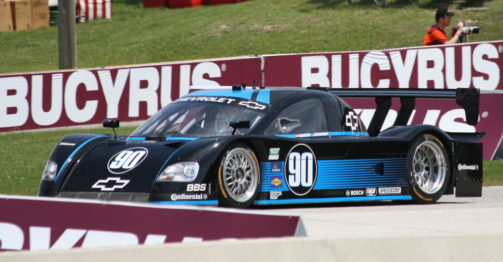 The Daytona Prototype of Antonio García and Paul Edwards racing in Grand-Am sports car at Road America.